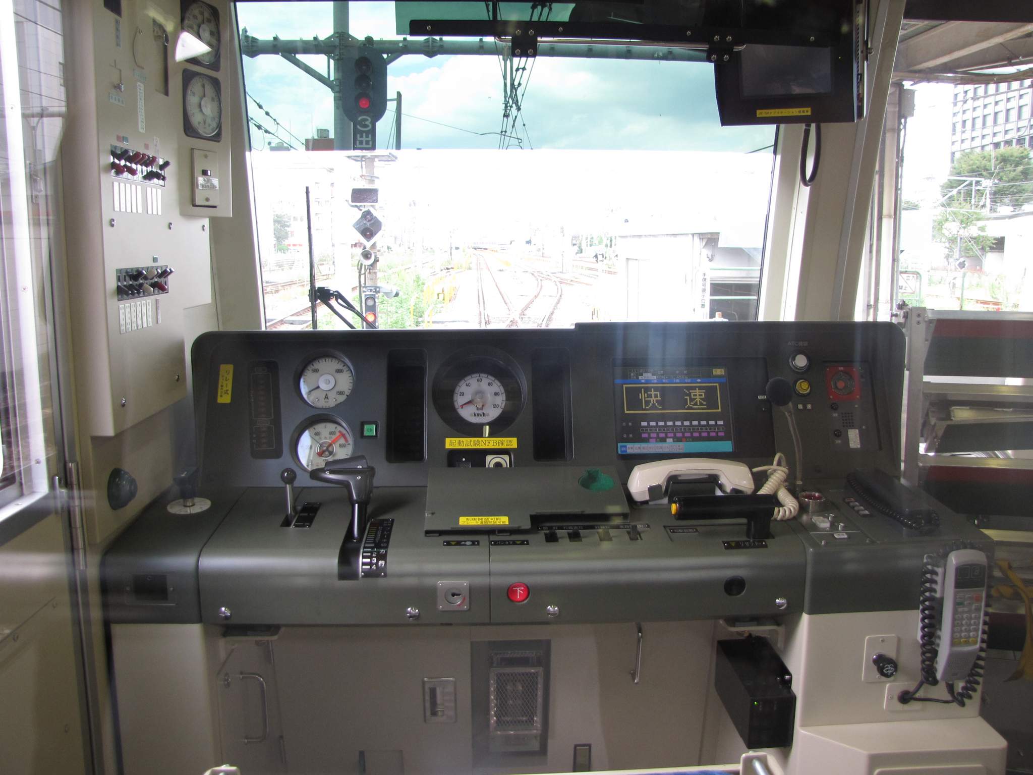 Tokyometro Series15000 Cab (CarNo : 15004)